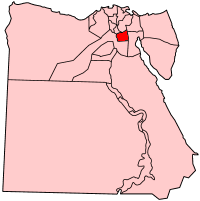 Map of Egypt showing Al Qahirah (Cairo) governorate. Made by User:Golbez based on PD maps.